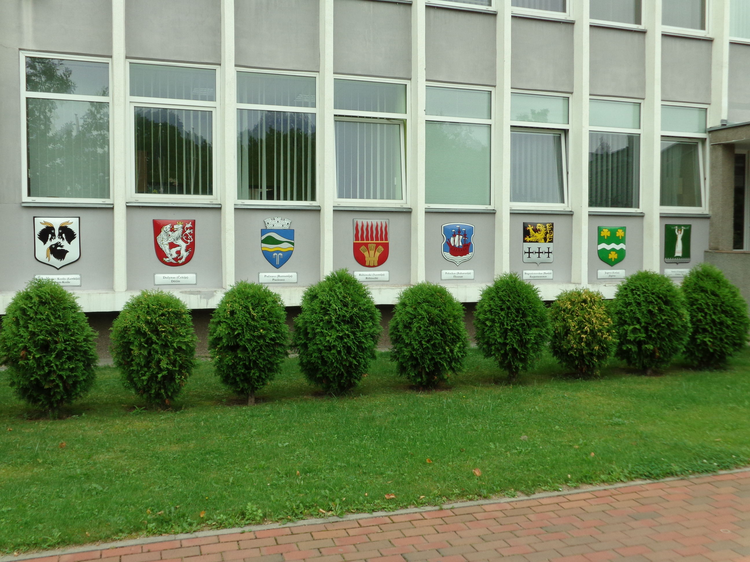 Jonava's twin cities, 2014